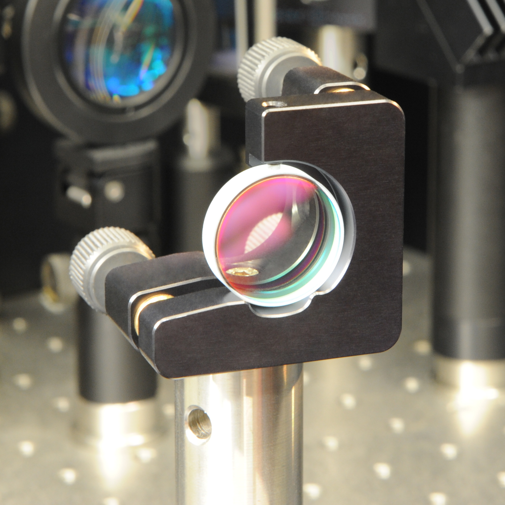 Photograph of a dielectric mirror (Bragg mirror) for 780nm at 45° incidence. The mirror is coated onto a 1inch glass substrate, which is mounted in a precision mirror mount. Although highly reflecting at the design wavelength, the mirror surface is semi-transparent in the optical and appears pink in this picture.